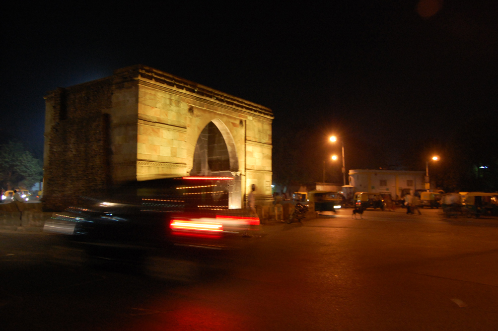 Astodiya Darwaja (Gate), Ahmedabad